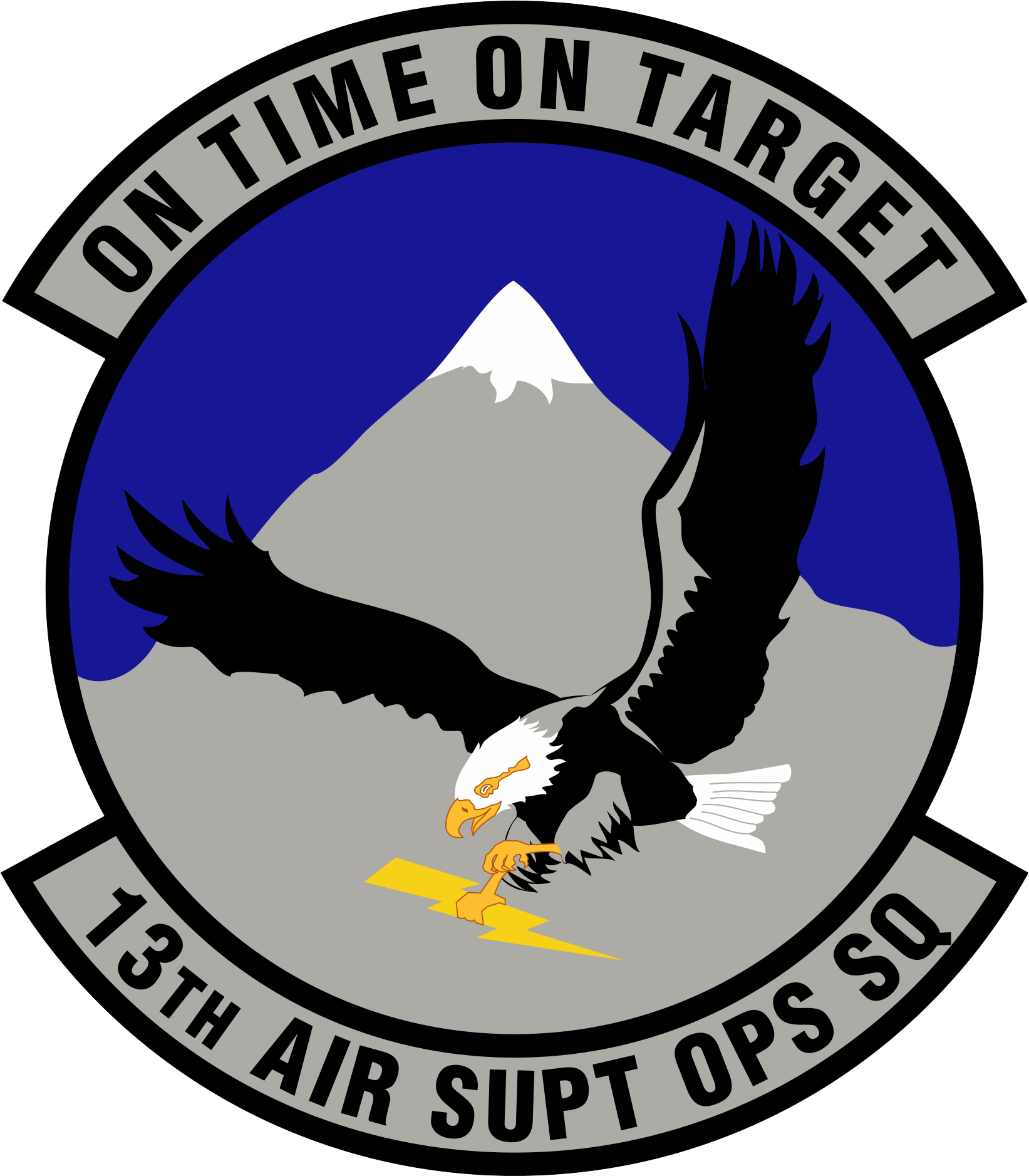 Emblem of the 13th Air Support Operations Squadron, US Air Force